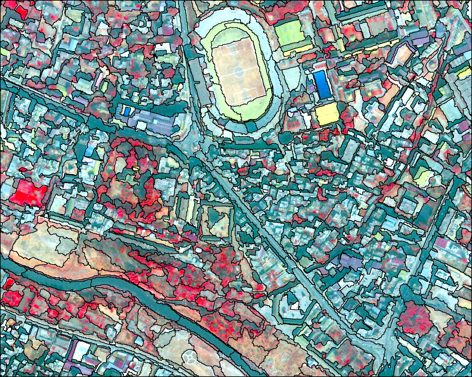 Object-Based Image Analysis (OBIA) – also Geographic Object-Based Image Analysis (GEOBIA) – "is a sub-discipline of geoinformation science devoted to (...) partitioning remote sensing (RS) imagery into meaningful image-objects, and assessing their characteristics through spatial, spectral and temporal scale".[2]